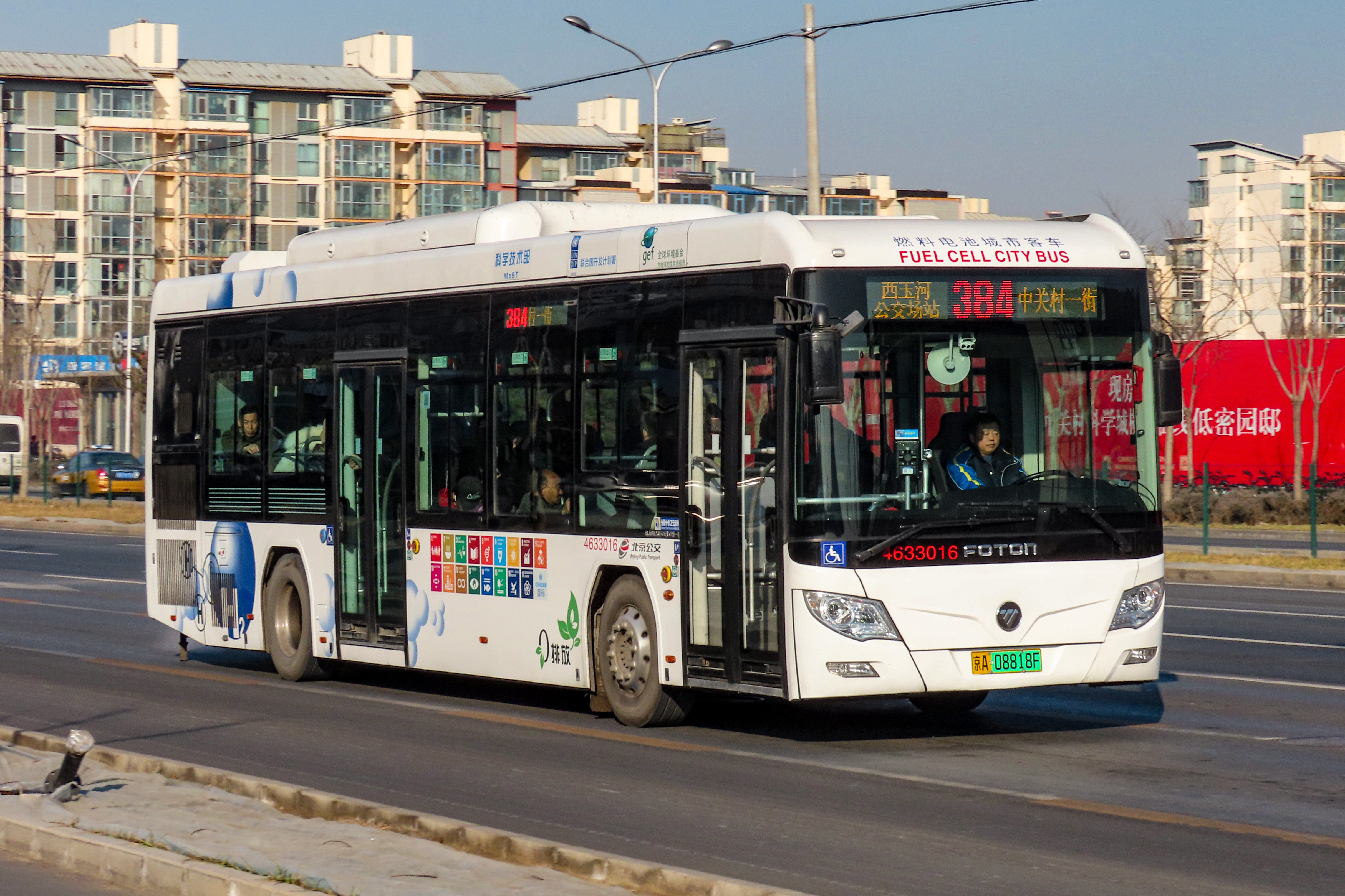 Happy new year 2020! Hope to see "Kalgan Eagles" someday...